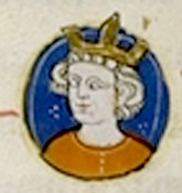 Louis X of France